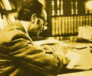 Argentine law professor and Marxist attorney Silvio Frondizi (1907 - 1974).